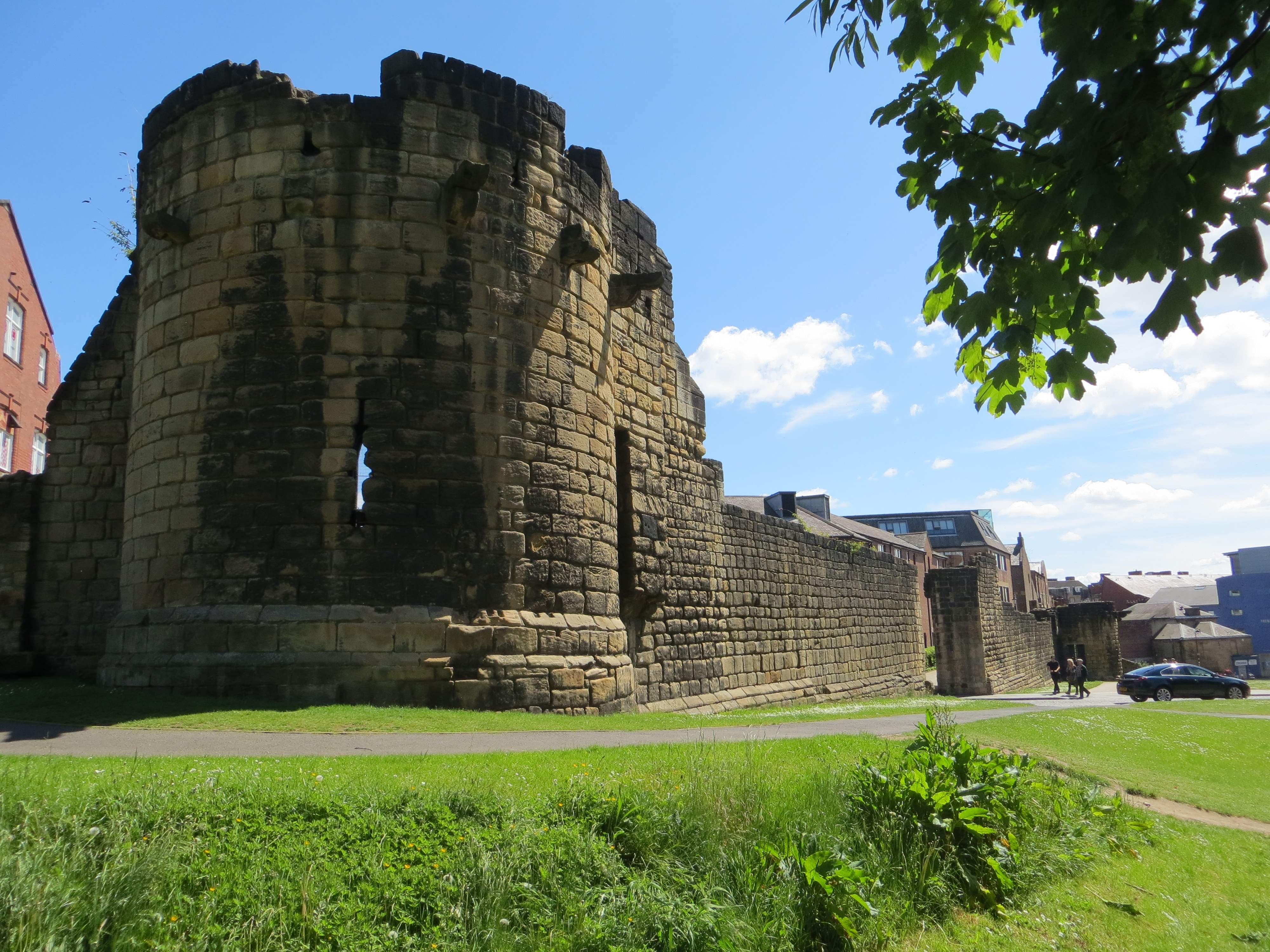 Herber Tower looking towards Durham Tower, Newcastle upon Tyne city walls